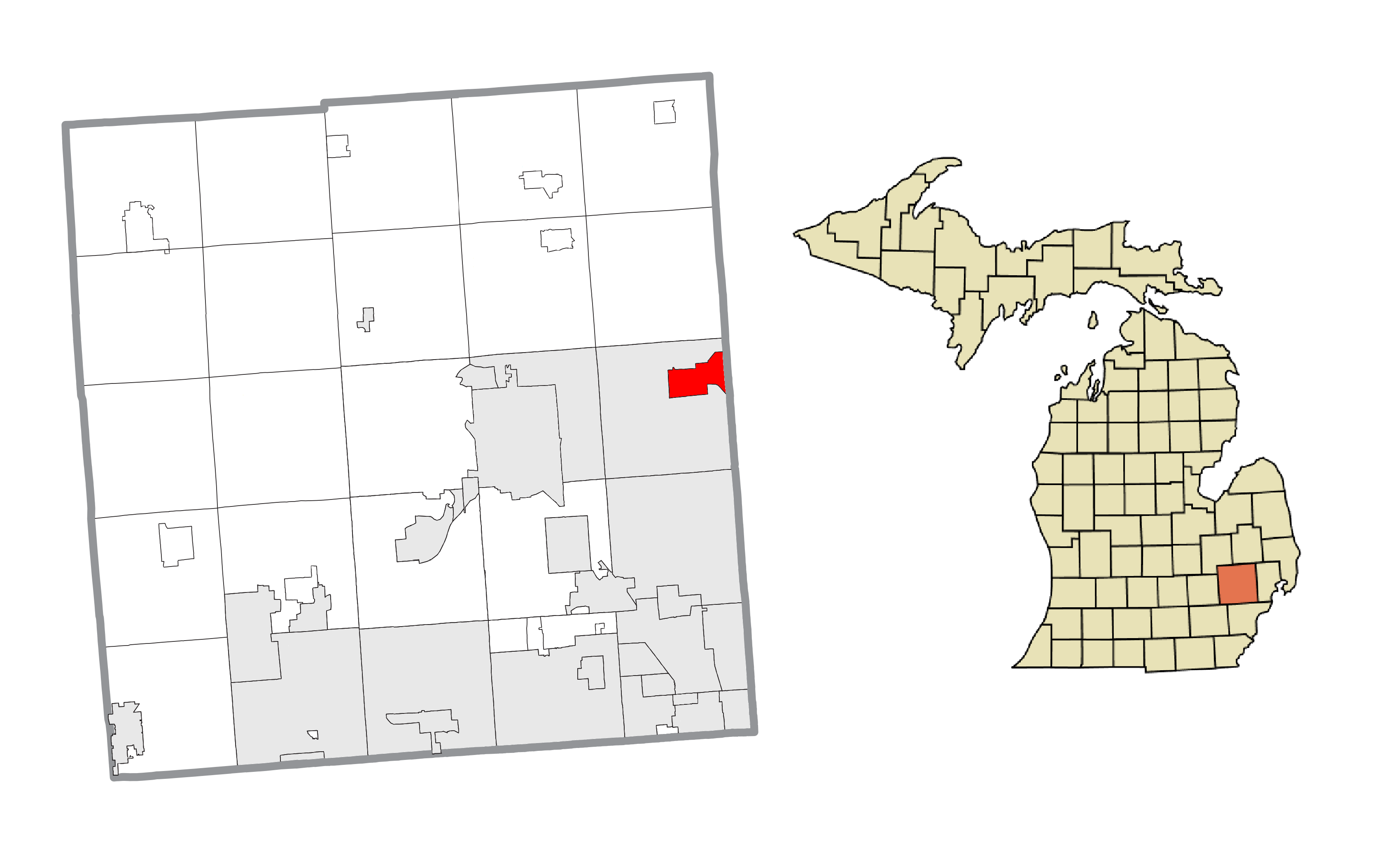 Rochester, MI